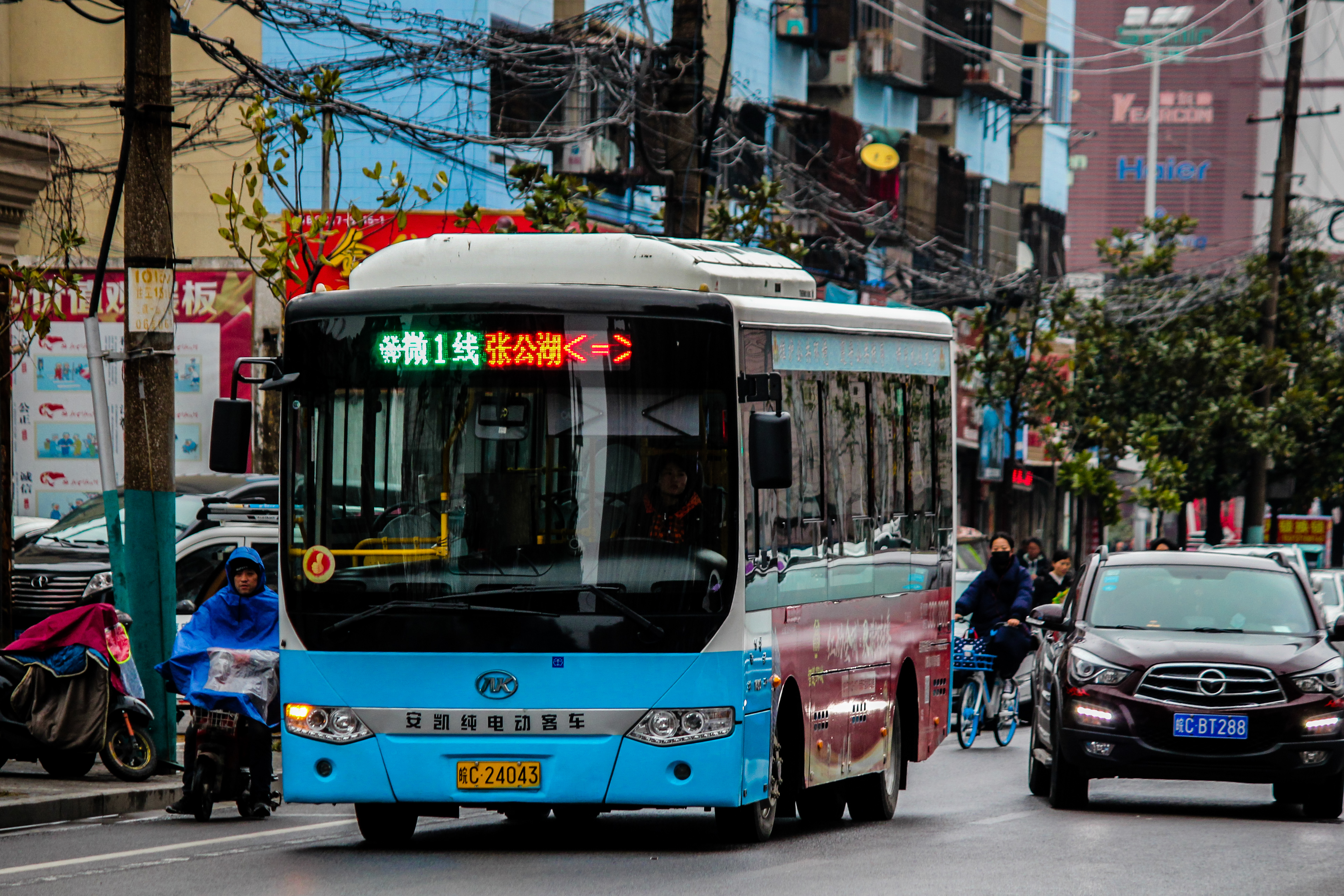 Bengbu Bus Micro No.1 Line 1.